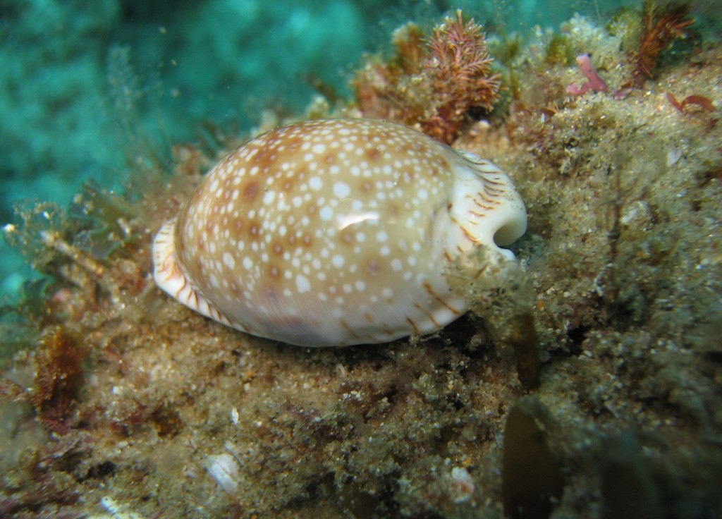 The cowrie Erosaria erosa (synonym :Cypraea erosa). Green Island, South West Rocks, NSW